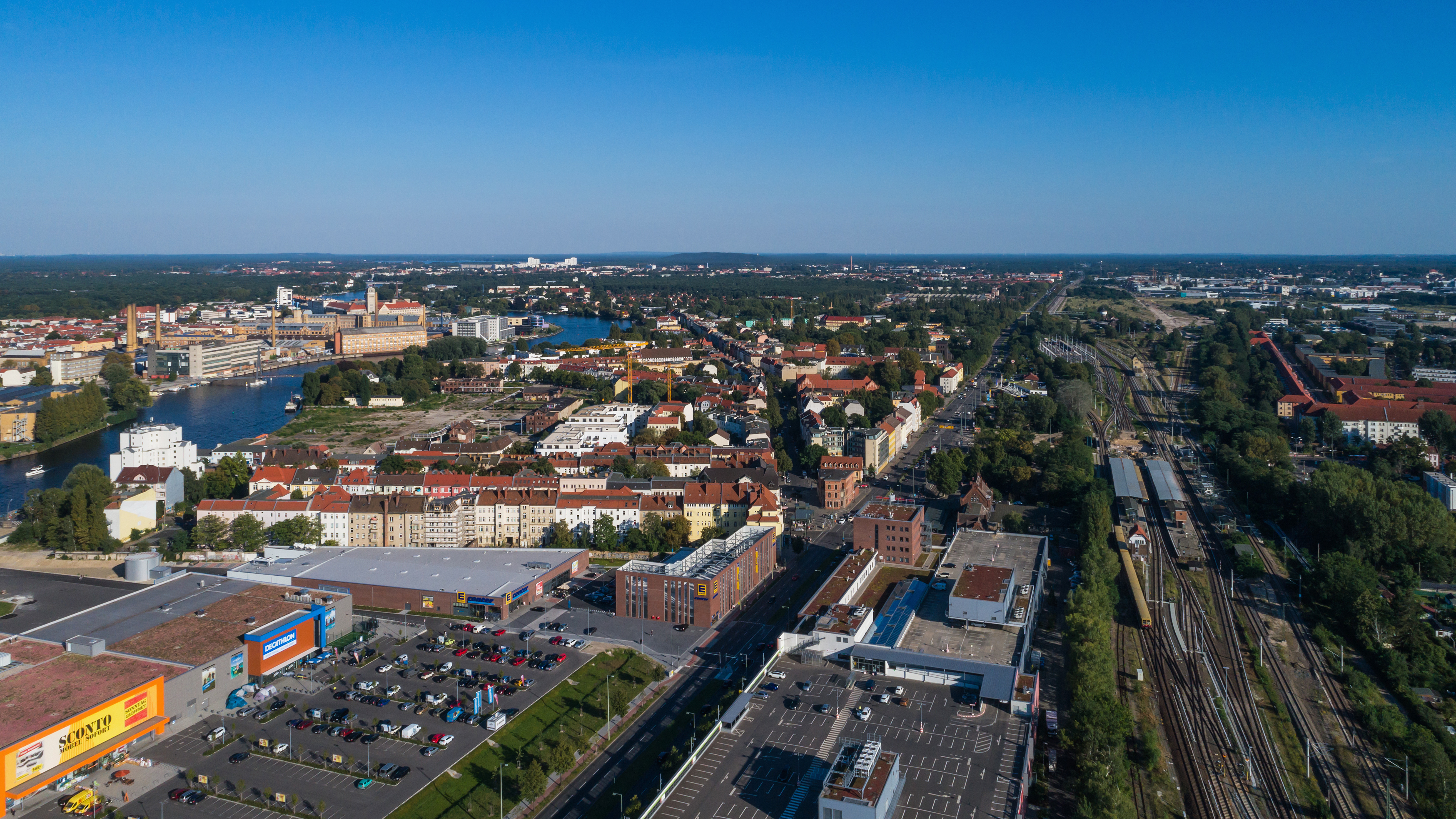 Aerial photo of near surroundings of Schöneweide station in Berlin (Germany)